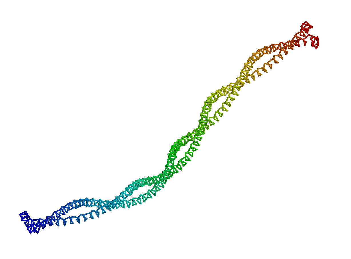 protein backbone for tropomyosin